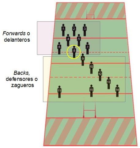 Rugby posiciones. Octavo